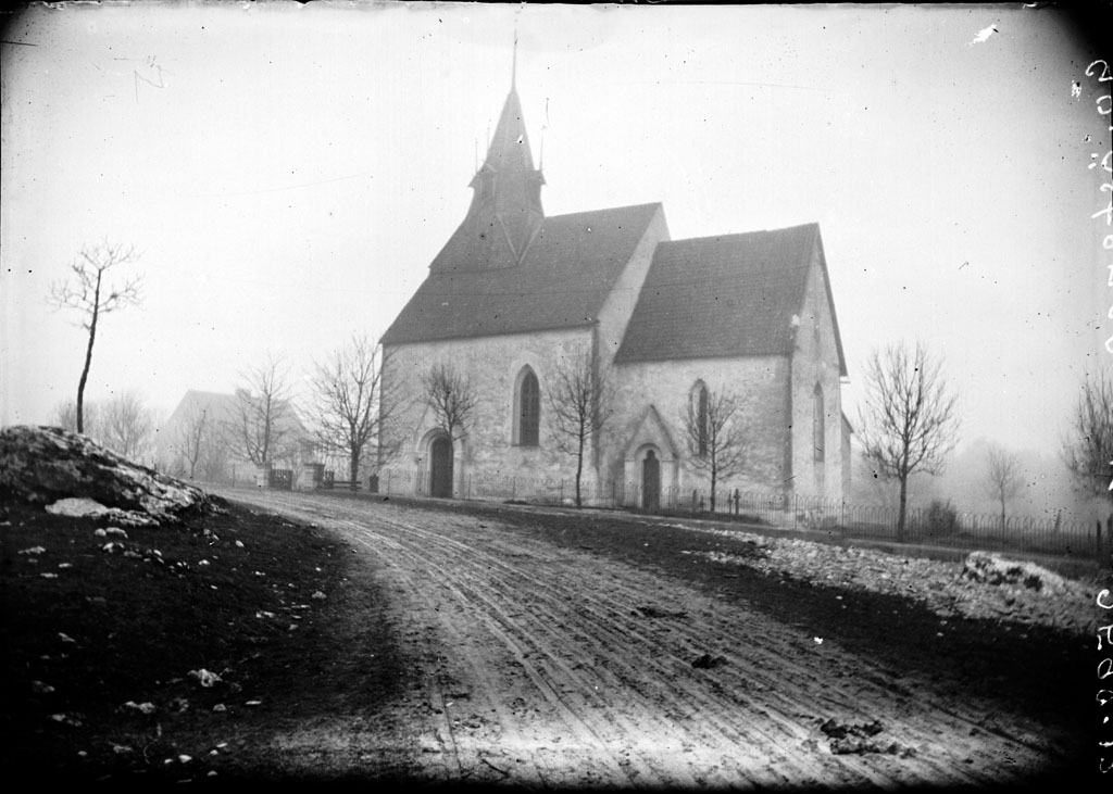 Östergarn Church, built in the 13th century, on the island of Gotland.